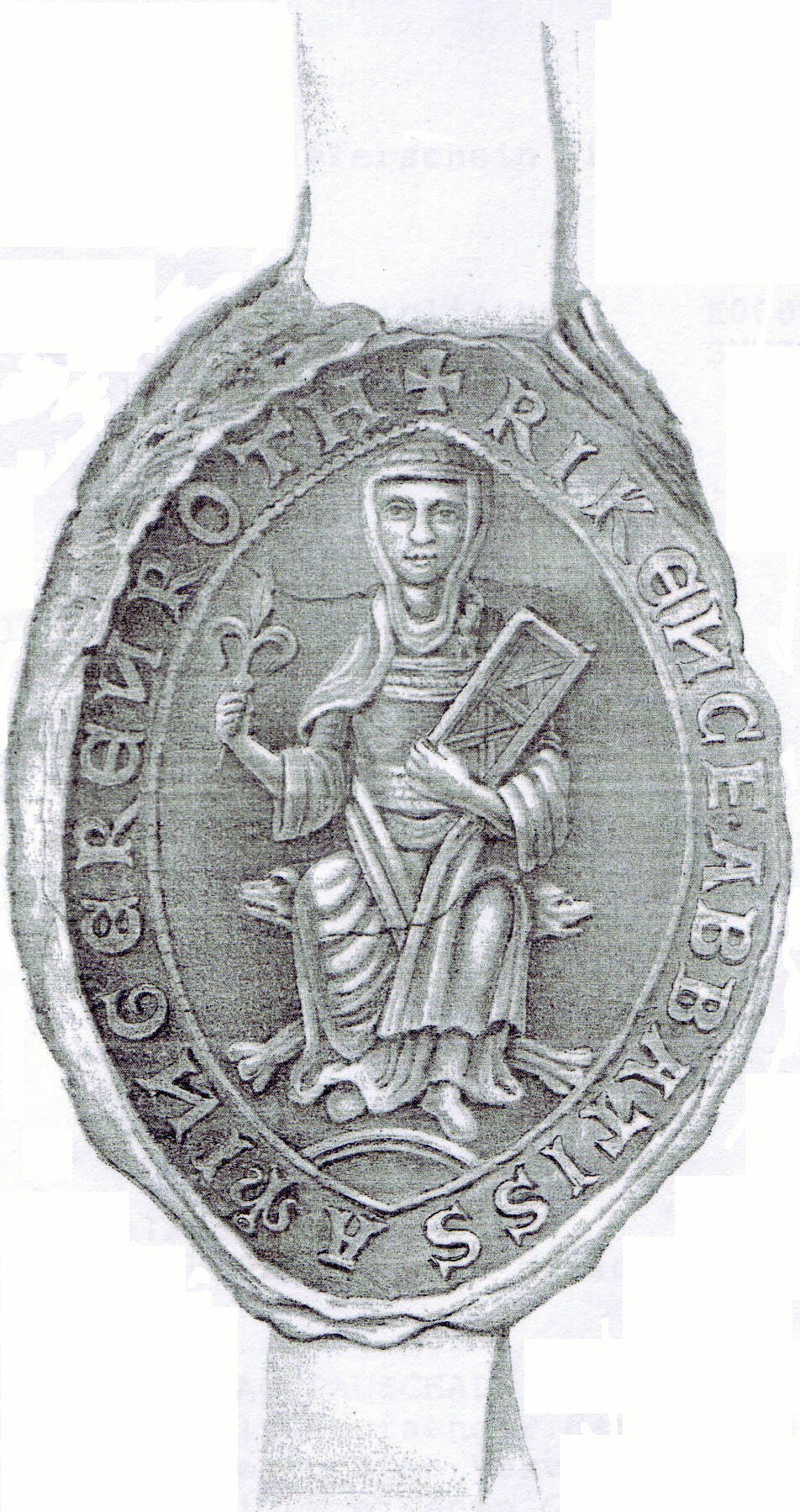 Seal of the Abbess of Gernrode - Rikinza